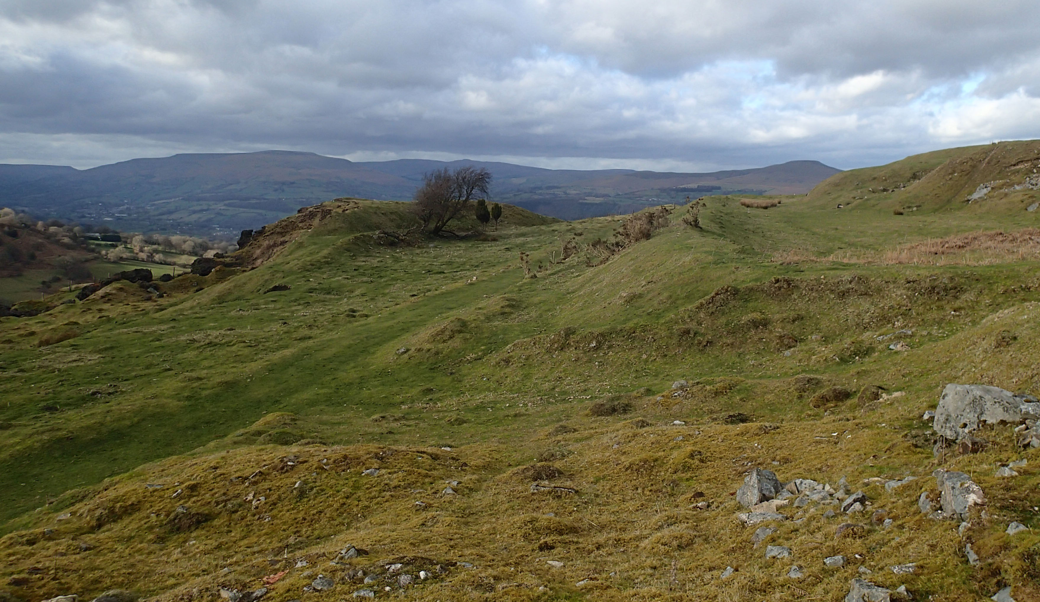 Ironworks remains and tramroad at Garnddyrys, Blorenge, Llanfoist Fawr. Hill's Tramroad linked the iron forge at Garndyrrys with the B&A canal at Llanfoist, and with Blaenavon industries. The remains and tramroad are a Scheduled Monument.